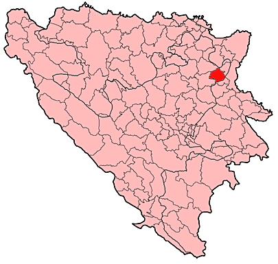 Municipality of Kalesija in Tuzla Canton, the Federation of Bosnia and Herzegovina, Bosnia and Herzegovina